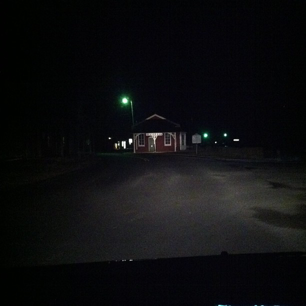 Beaverdam Depot